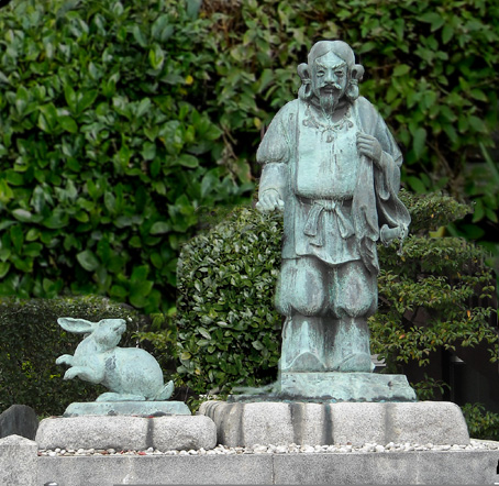 The god of Daikoku & rabbit